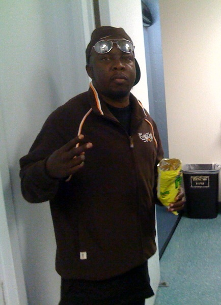 photo of Malik Taylor / Phife Dawg while eating Funyuns™